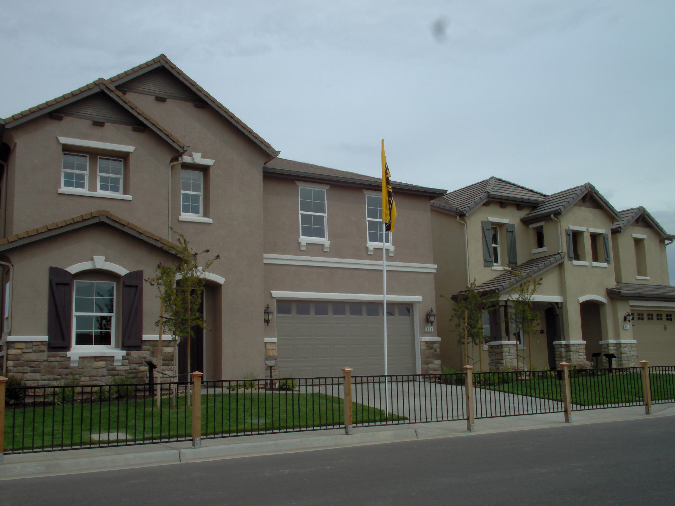 Two story neo-eclectic homes in California, built in 2006. Note short eaves, overall vertical orientation of the design, small front and side yards, and multitude of historical styles. The overall impression is European. Variations of the neo eclectic style are seen throughout the United States, some more Mediterranean and others, like these examples, more northern European. These homes are in the 2500 square foot range and form an instructive comparison to the Ranch House at the start of the article built in 1966 and of similar size.